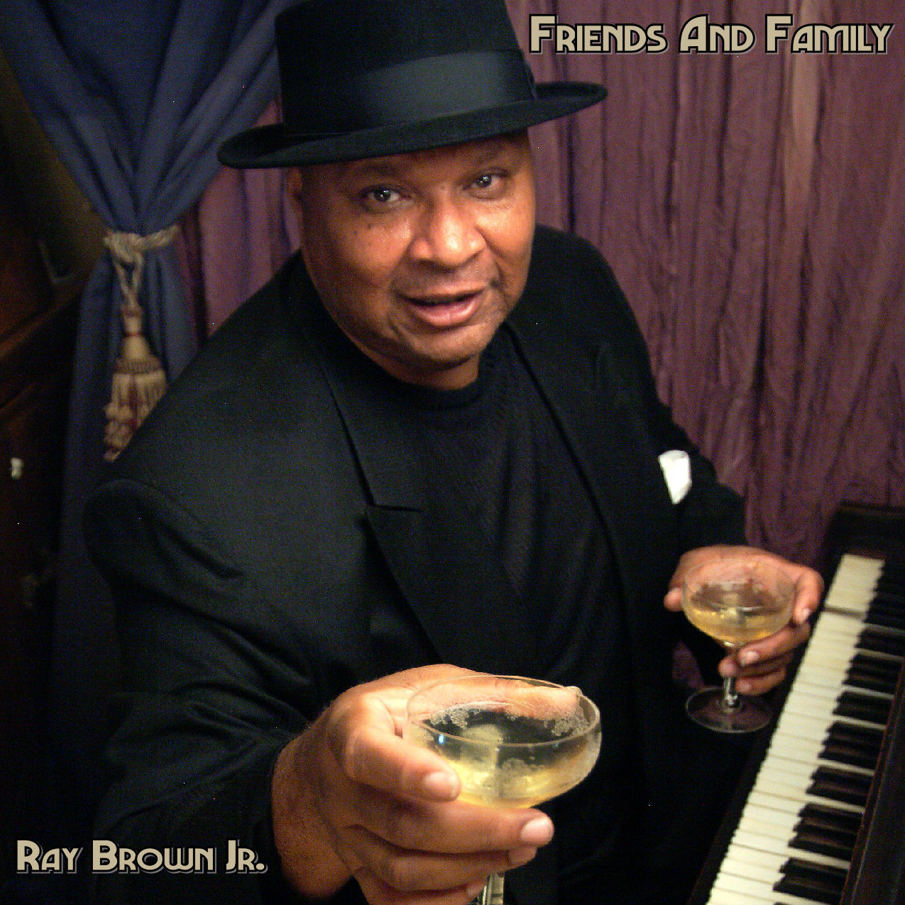 Ray Brown, Jr. album Friends and Family